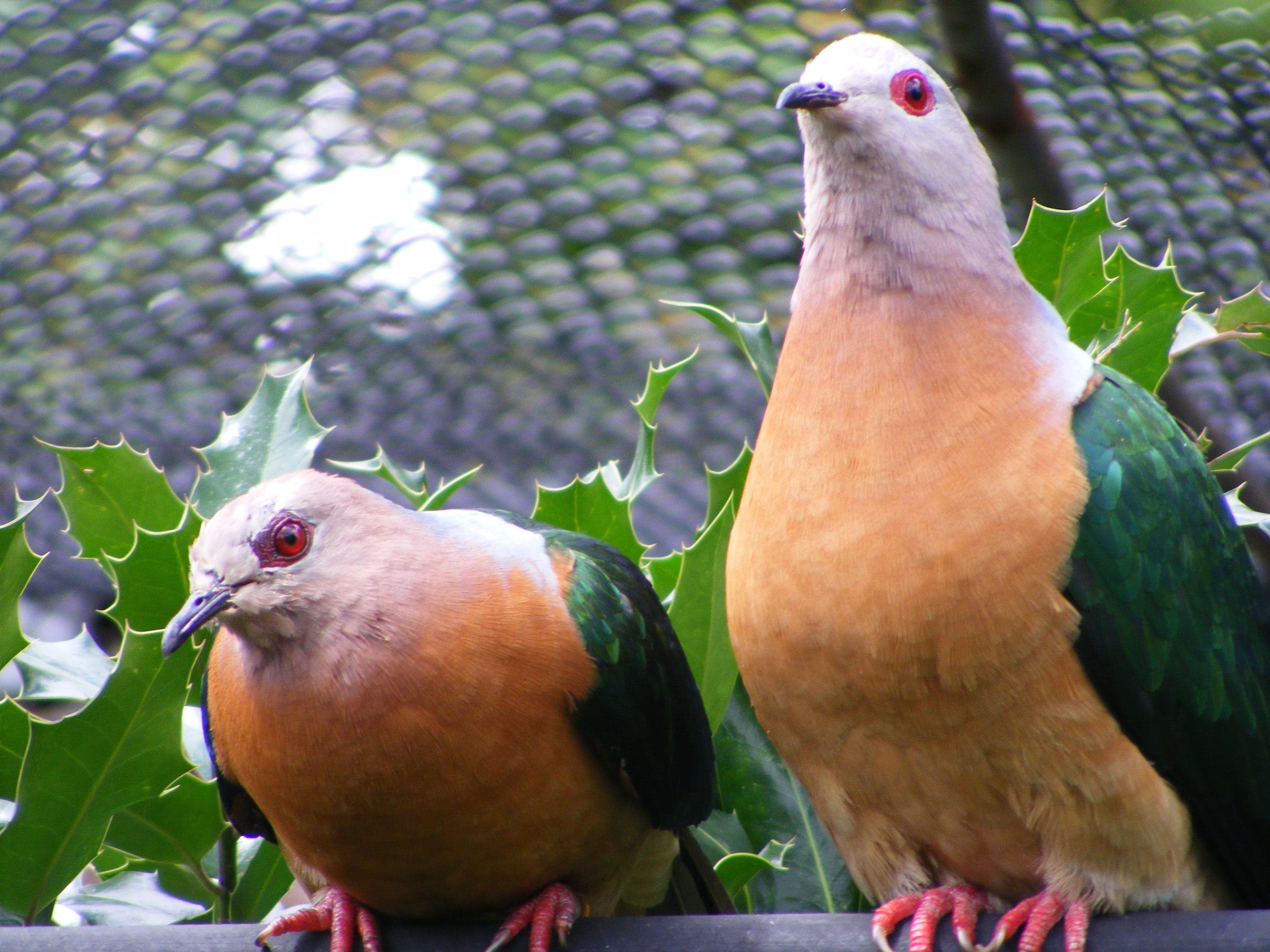 Two Purple-tailed Imperial-pigeons at London Zoo, England.